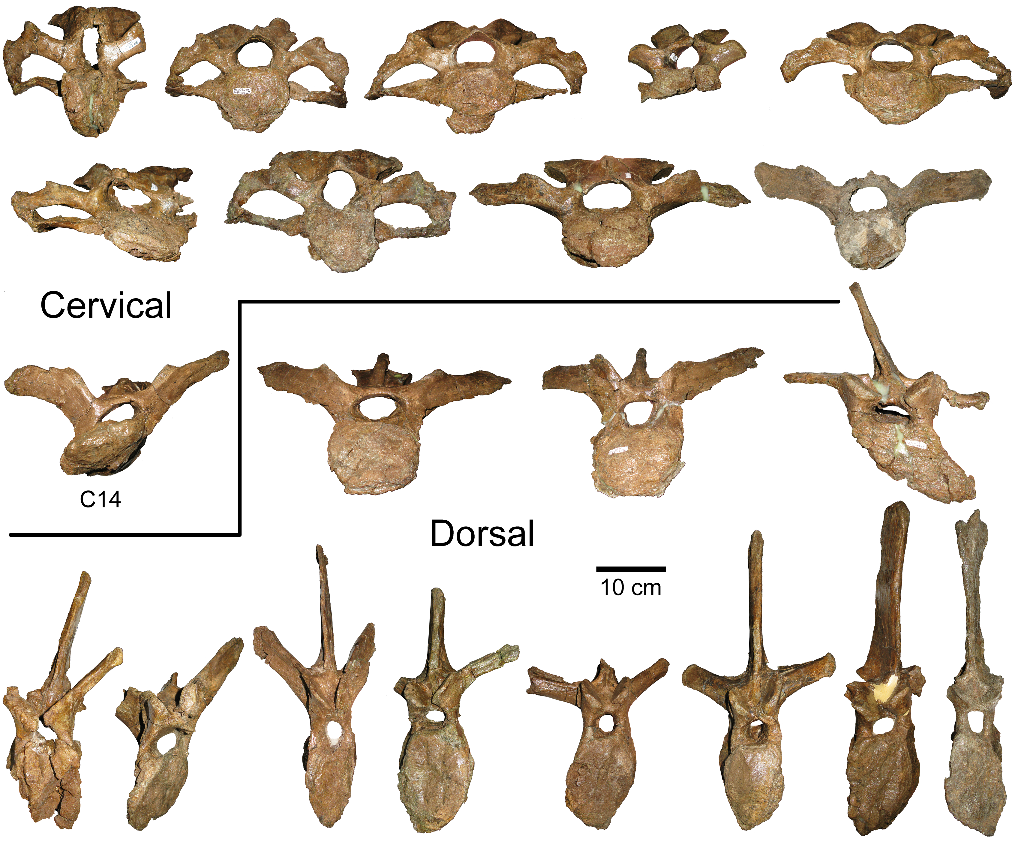 Probrachylophosaurus bergei gen. et sp. nov. cervical and dorsal vertebrae. MOR 2919 vertebrae are pictured in anterior view in their approximate order within their series. Serial position of vertebrae is not listed because the complete series of cervicals and dorsals were not preserved, and so their exact serial positions cannot be determined with confidence. However, the last cervical vertebra pictured, “C14”, is consistent with the morphology of cervical 14 in CMN 8893, the holotype of Brachylophosaurus canadensis [23]. Atlas fragments and other vertebral fragments not pictured.